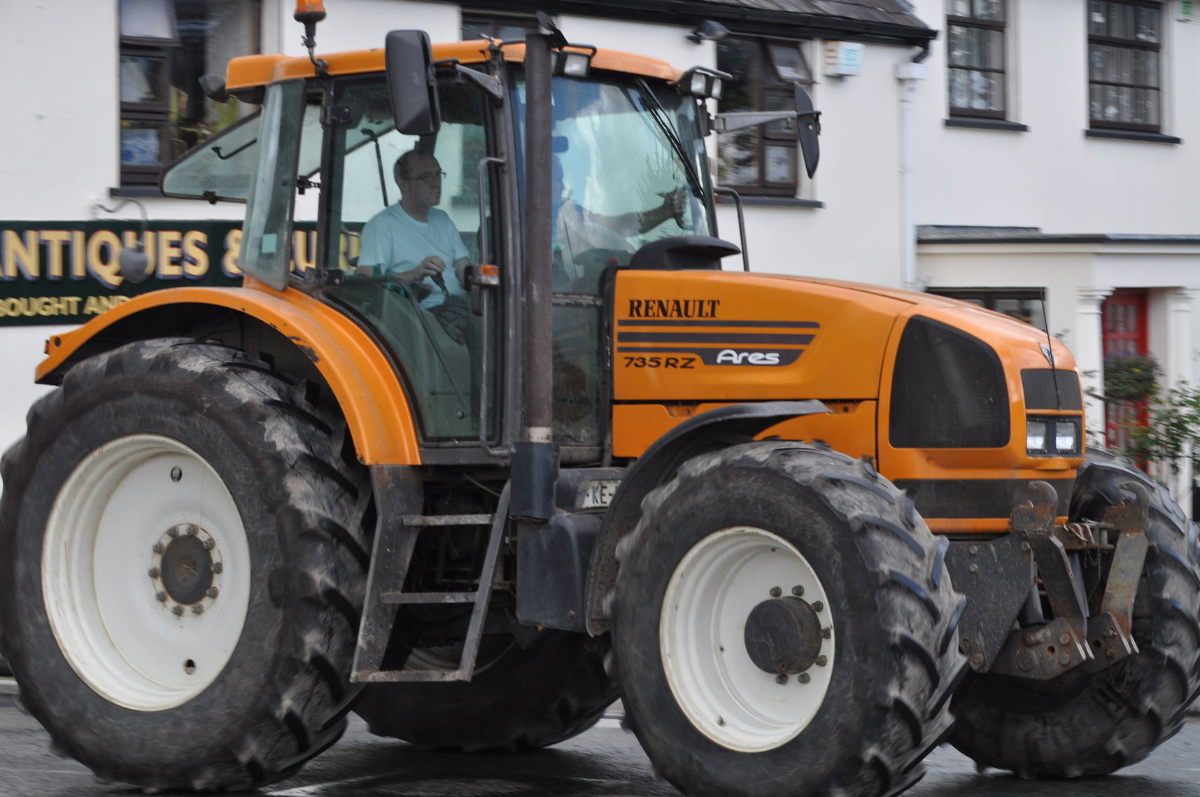 A Renault Ares 735 RZ tractor at the 1st Annual Edward Cosgrave Tractor Run in Aid of REHAB - Sunday 21st August 2011. The photo was taken at the event held in Longwood, Co. Meath. See this on Facebook at [1]. These pictures show the return to the village from Saint Oliver's Road. – If you are interested in the full resolution of any photograph(s), with no watermark or polaroid effect, I can email it to you FREE OF CHARGE. Email address is petermooney78 AT gmail DOT com. The easiest way to do this is to open the picture in Flickr and copy the link at the top of the browser into your email. If you would like to use any of the photographs on your Facebook, LinkedIn, Twitter, Foursquare, account etc - please link back to the original photogaph on Flickr or attribute the source. All (my) photographs are available under a Attribution-ShareAlike 2.0 Generic (CC BY-SA 2.0) license. This just means that all you have to do is just link back or state where the photographs came from. This is the only "cost" of the images.